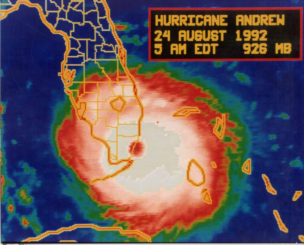 Infrared image of Andrew over Dade county at 0900 UTC August 24, 1992